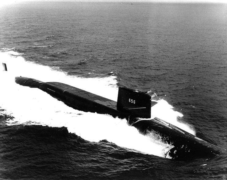 The U.S. Navy ballistic missile submarine USS George Washington Carver (SSBN-656) underway at sea, circa June 1966.